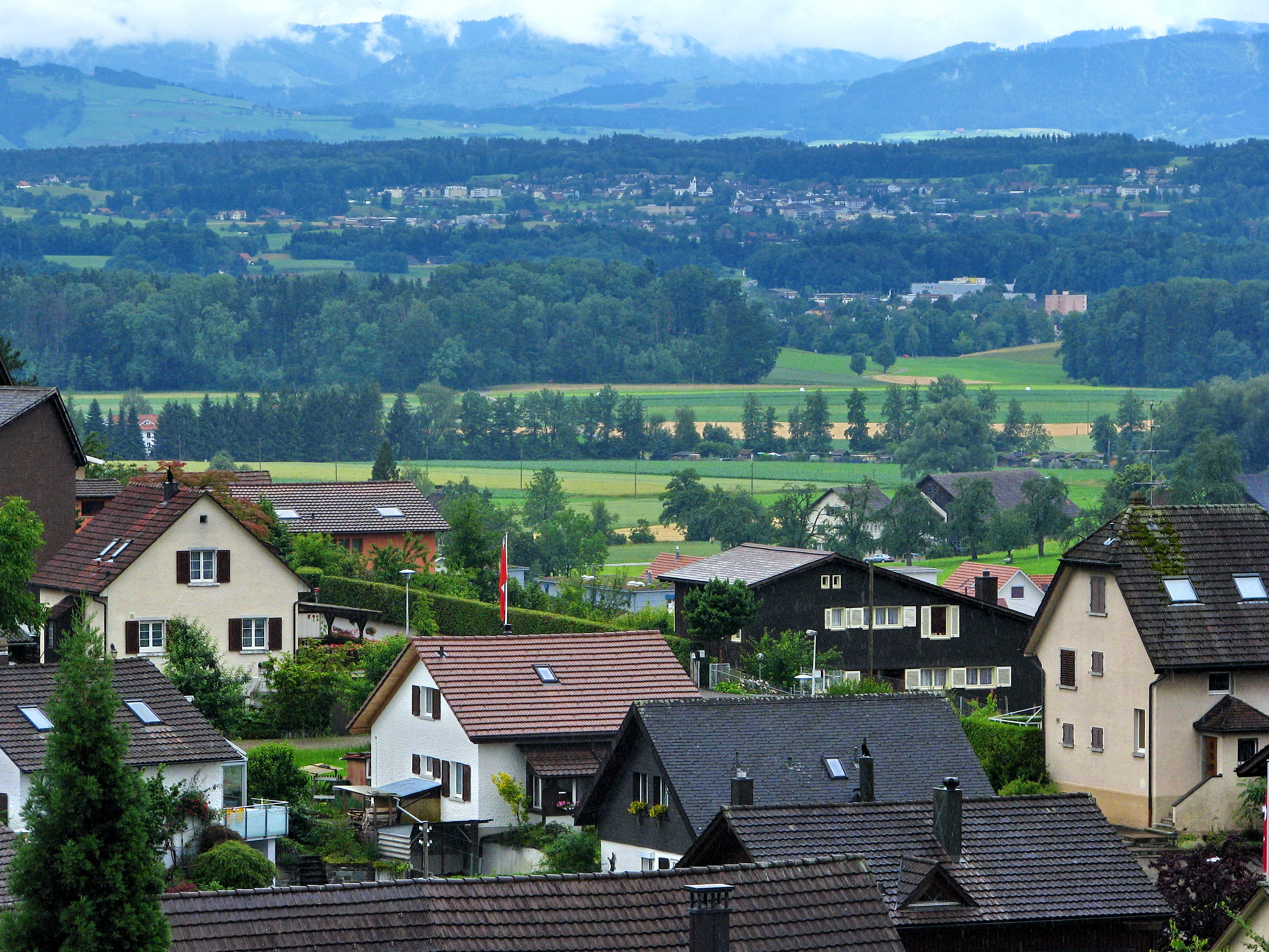 Uster (Riedikon) as seen from Uster castle, Möncaltorf in the background.